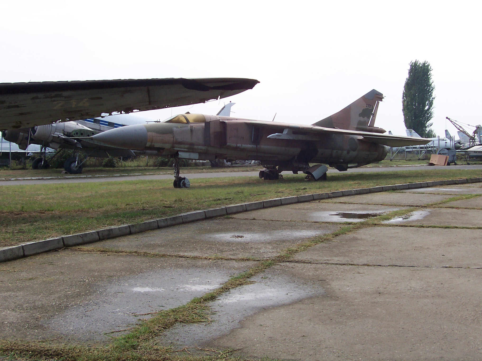 MiG-23MLA of Iraqi Air Force, in the Museum of Yugoslav Aviation, Belgrade